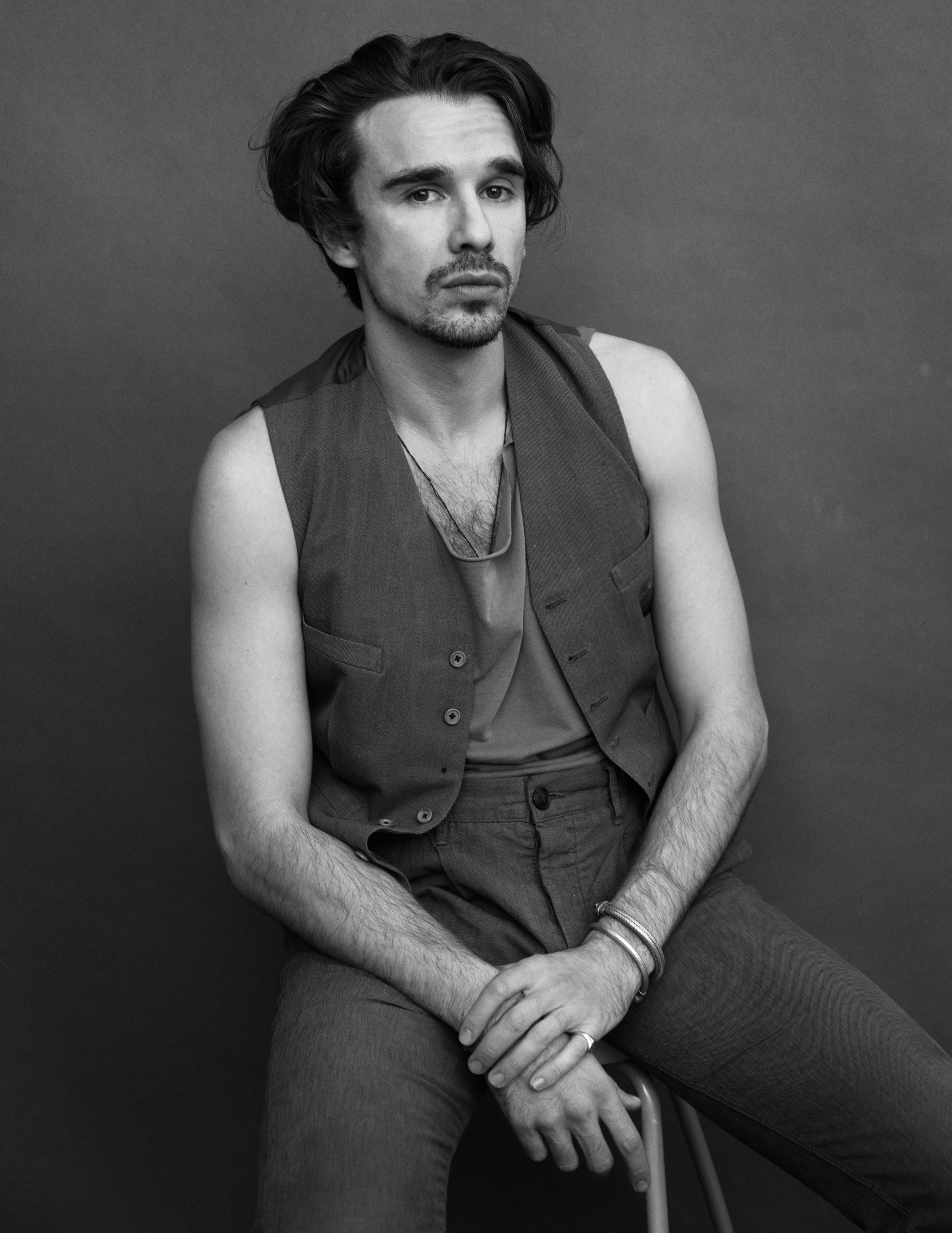 Edward Akrout by Patrik Andersson (OTRS)